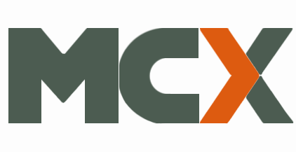 Logo of Muntinlupa-Cavite Expressway.